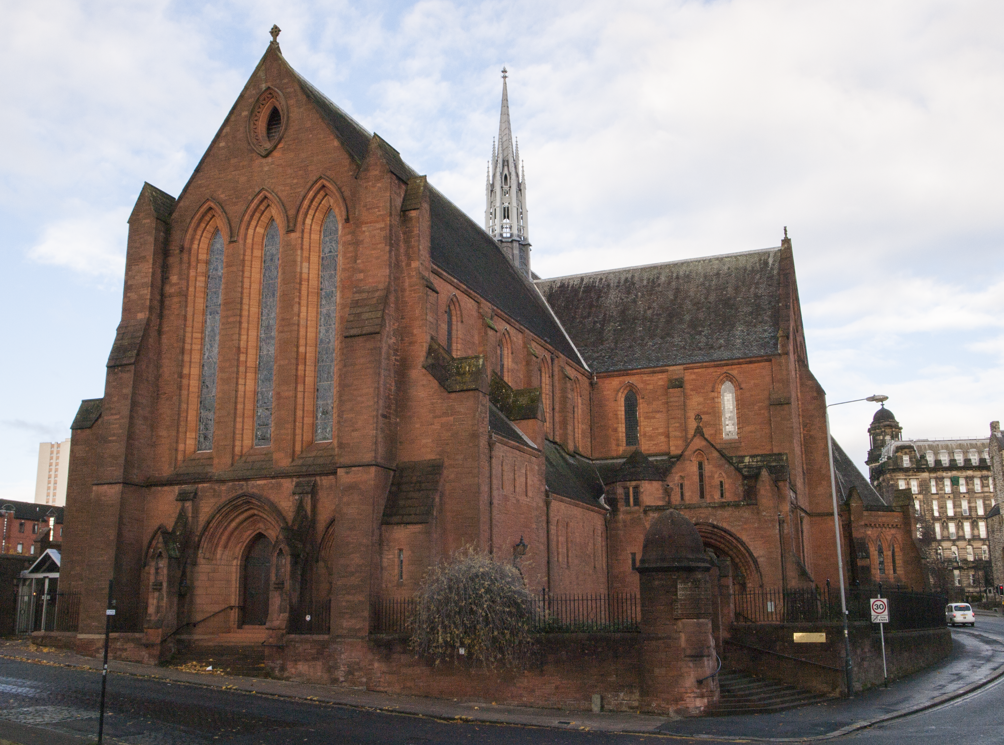 Barony Hall photo